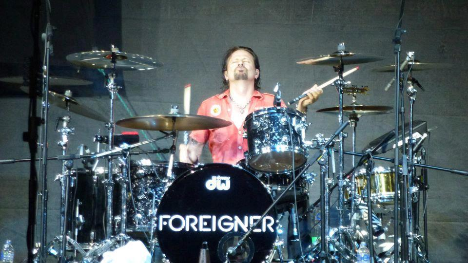 Chris Frazier performing with Foreigner at Centro de Convenciones Claro, Lima-Peru, 02/04/2013